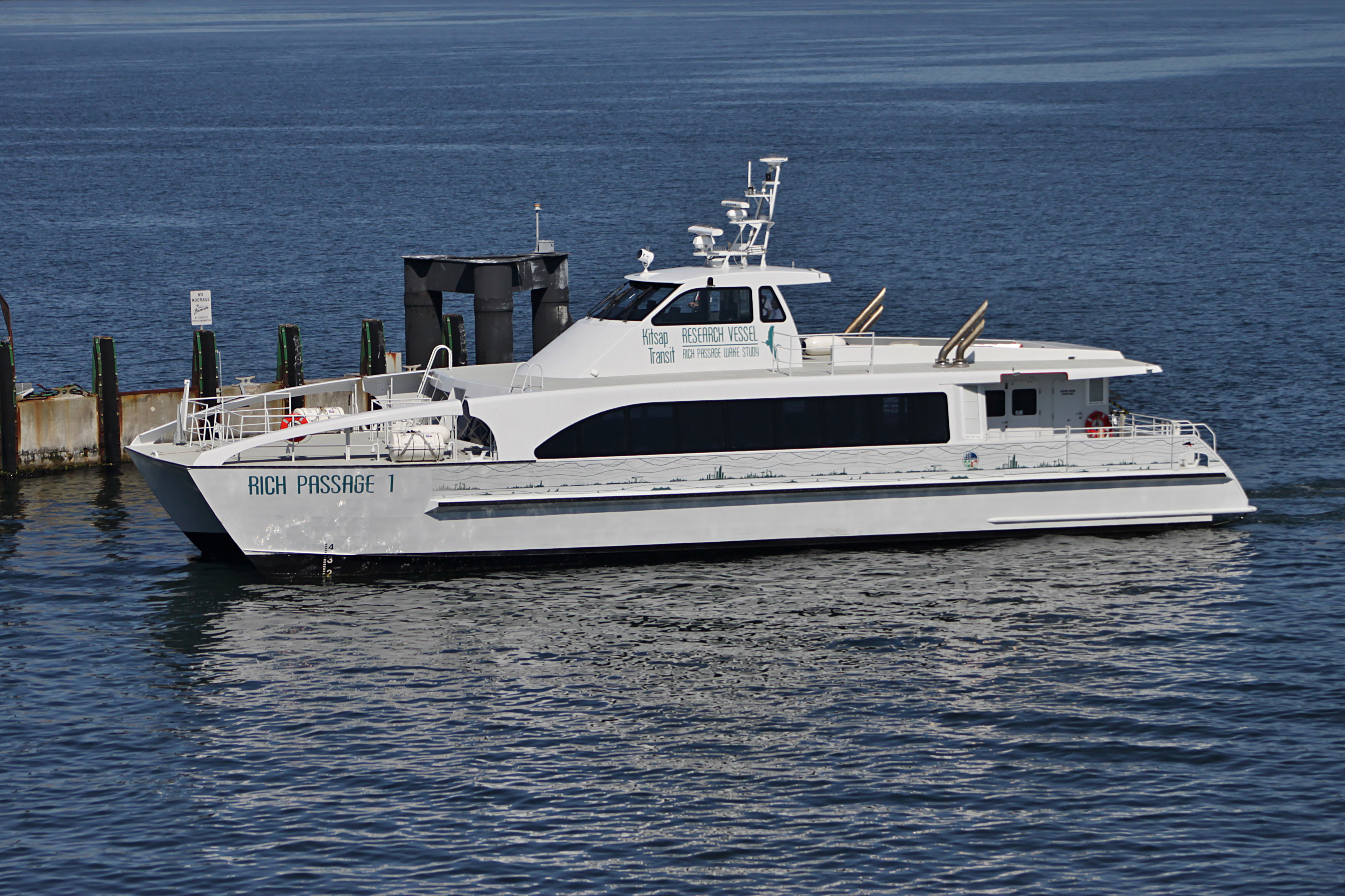 Rich Passage 1, a catamaran designed for passenger ferry service operated by Kitsap Transit, at the Bremerton foot ferry terminal, viewed from a nearby automobile ferry.